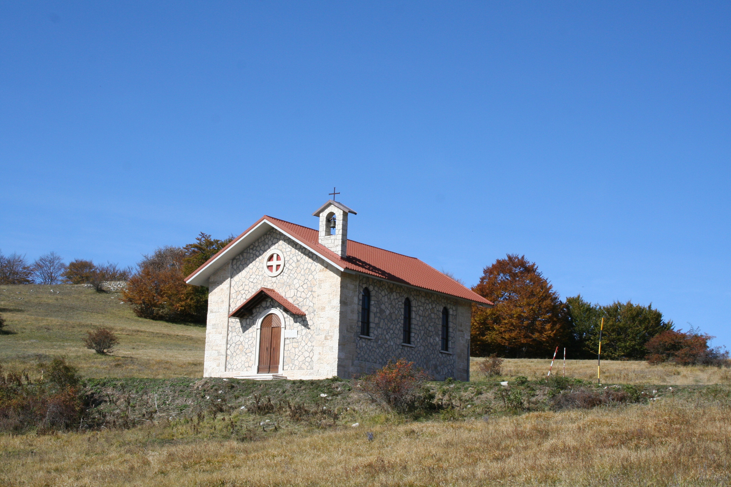 Churc of Beata Vergine del Carmelo in Forca Canapine (Ascoli Piceno)